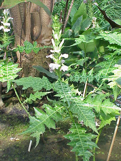 Species: Acanthus montanus Family: Acanthaceae Image No. 4